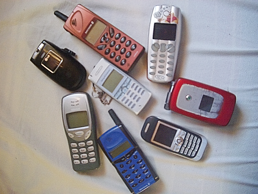 Pictures of cellphones